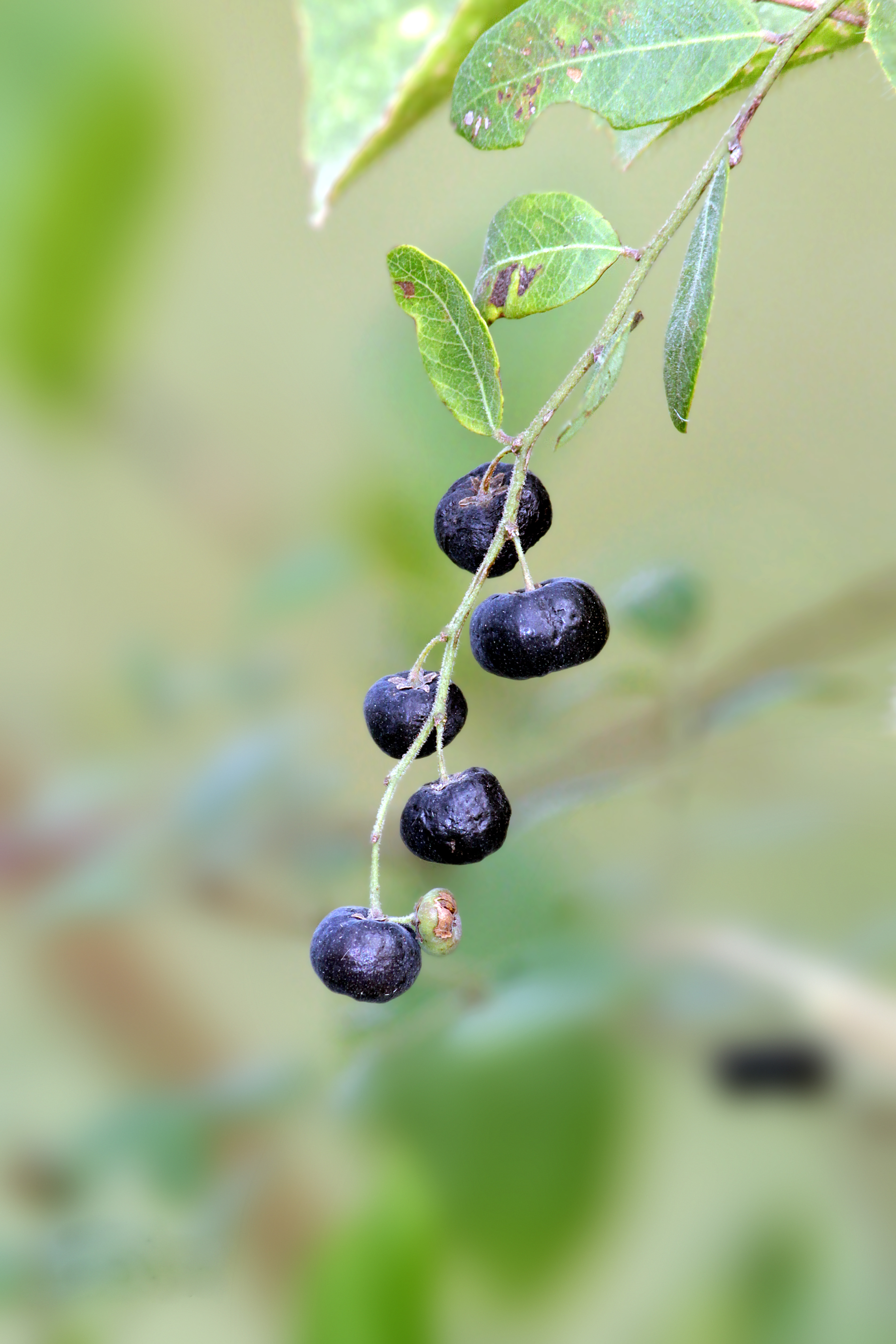 Phyllanthus reticulatus നീരോലി